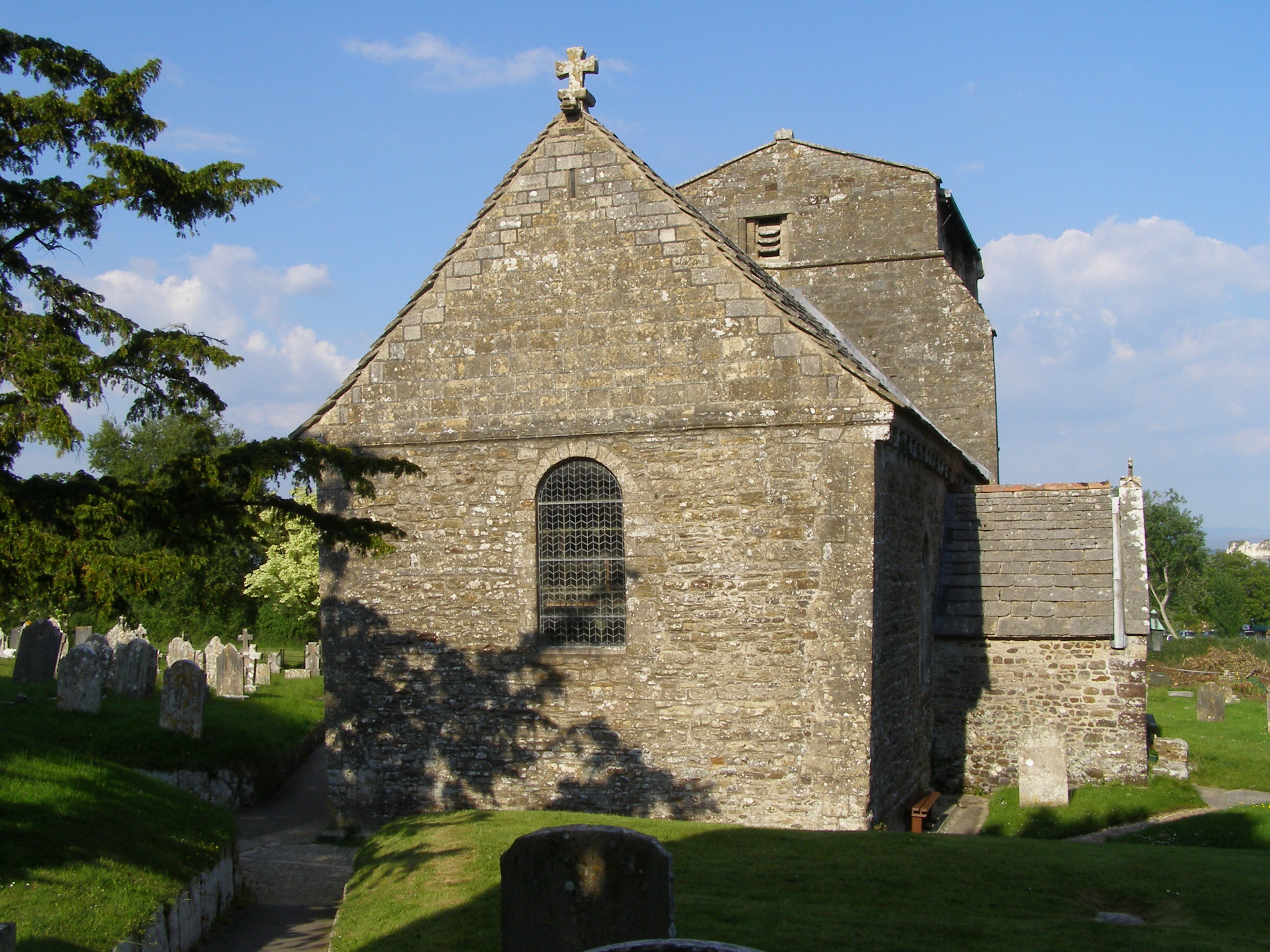 Mainly Norman. One of the corbels above the window along the path to the left (out of sight) is a Sheela Na Gig.